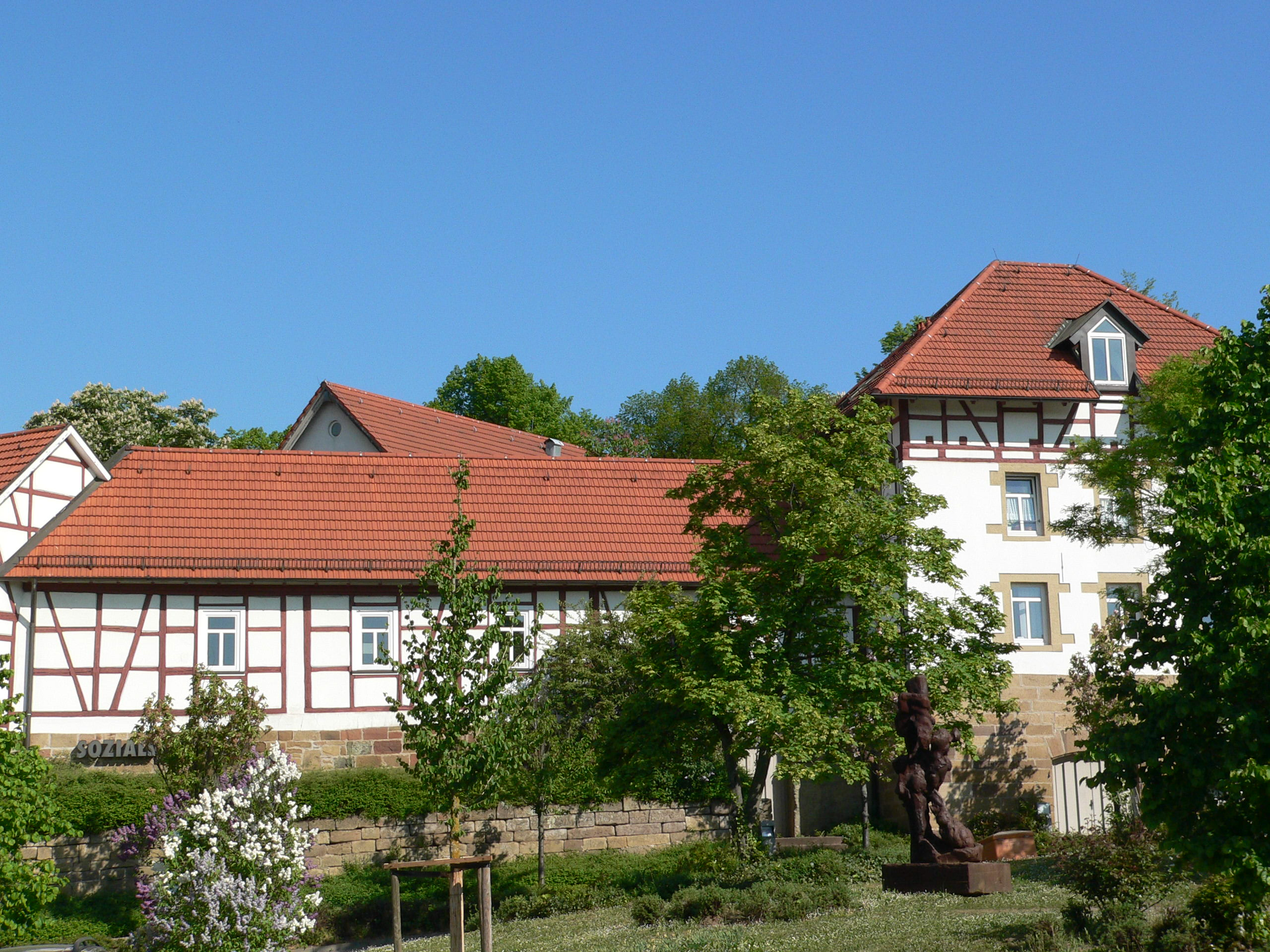 The charitable institution "Sozial-Station" of Neckarsulm / Germany